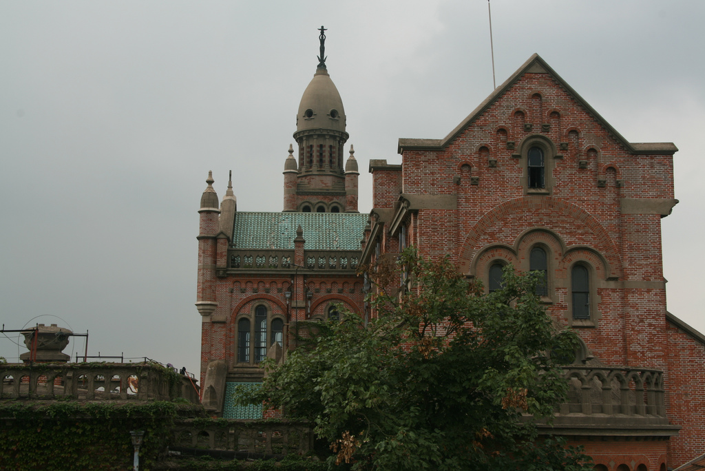 The She Shan Basilica in Shanghai, China.